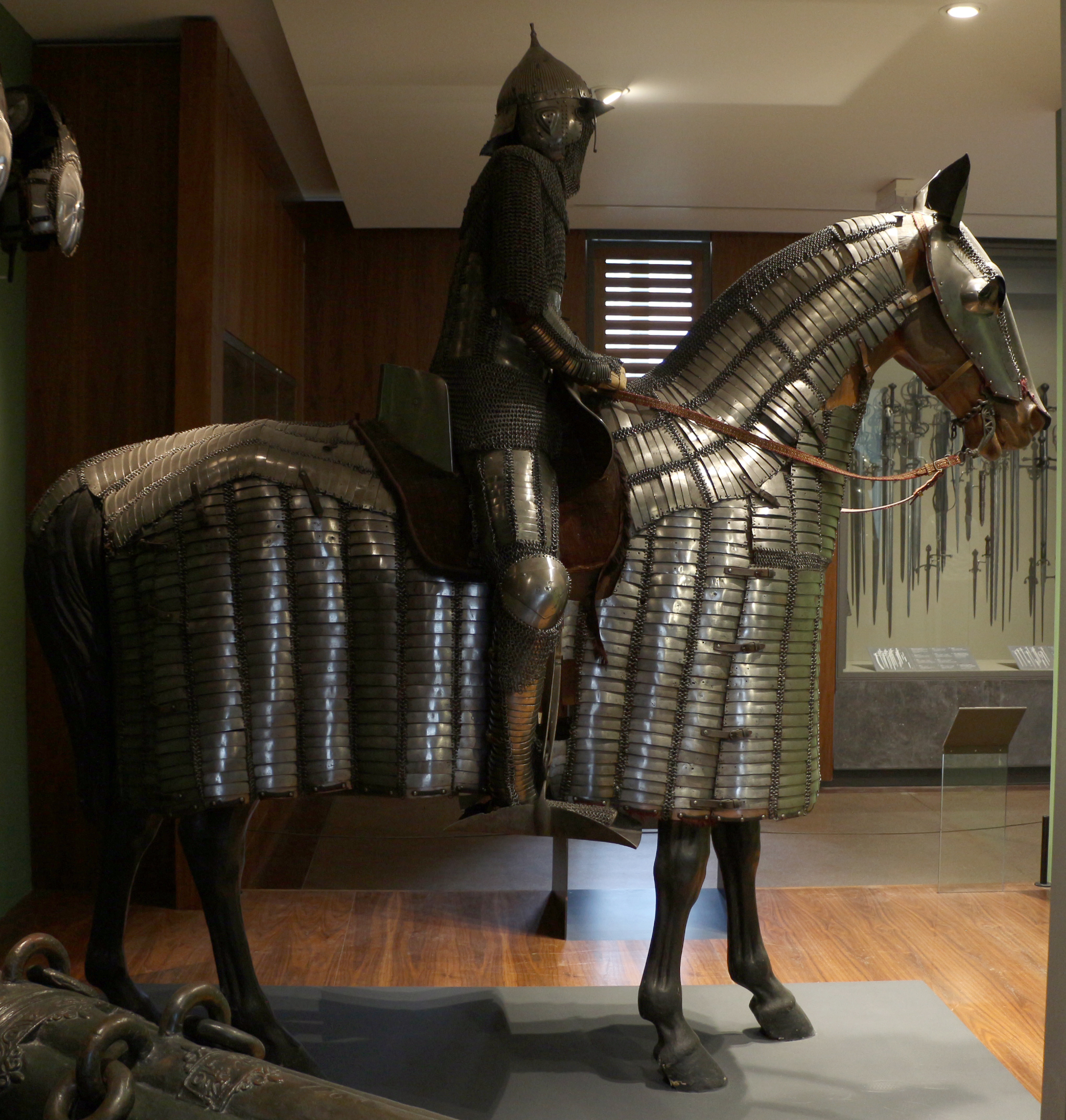 Musée de l'Armée - Ancient Weapons and Armours